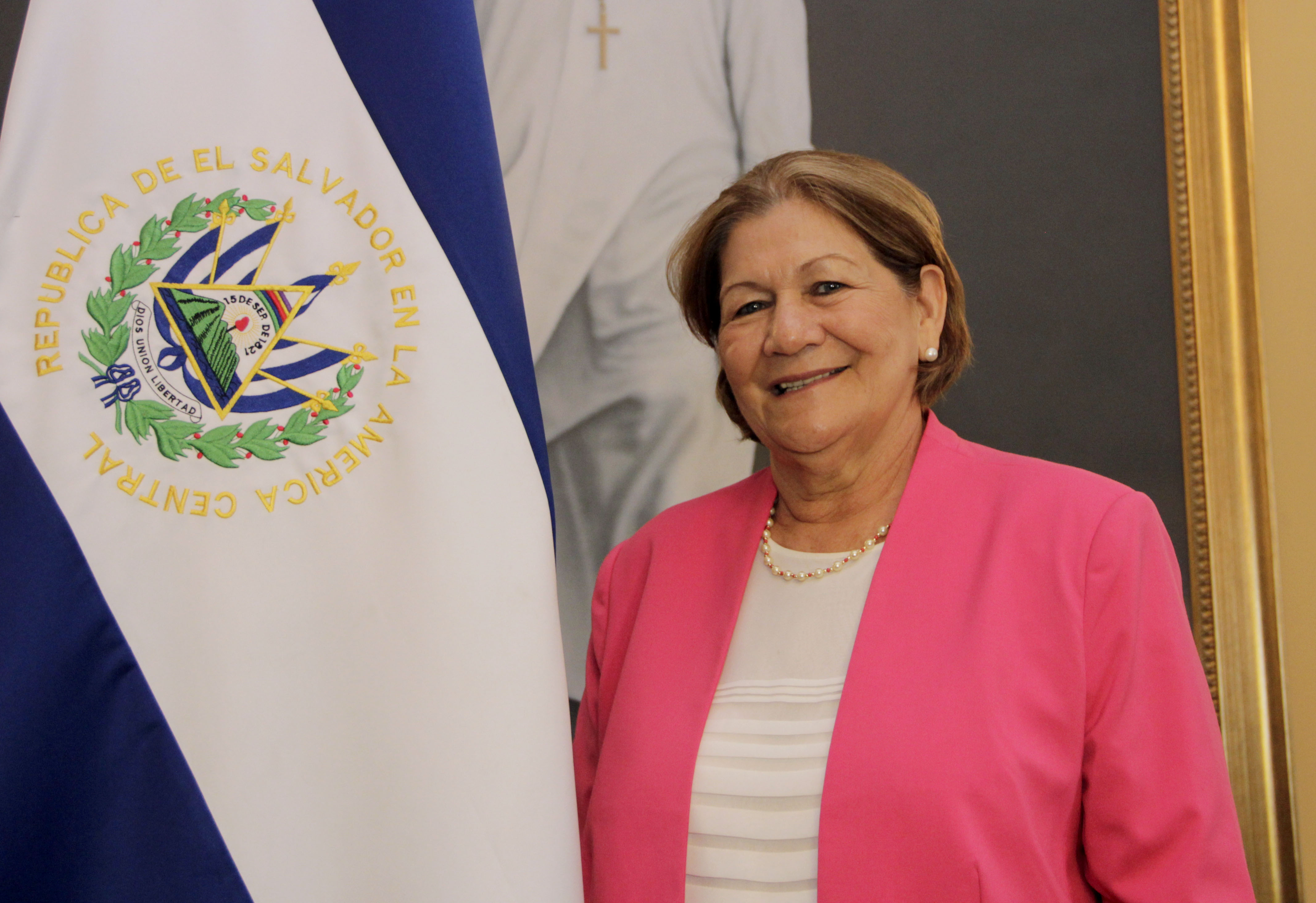 Margarita Villalta de Sánchez, First Lady of El Salvador, poses with the national flag on June 11, 2014.